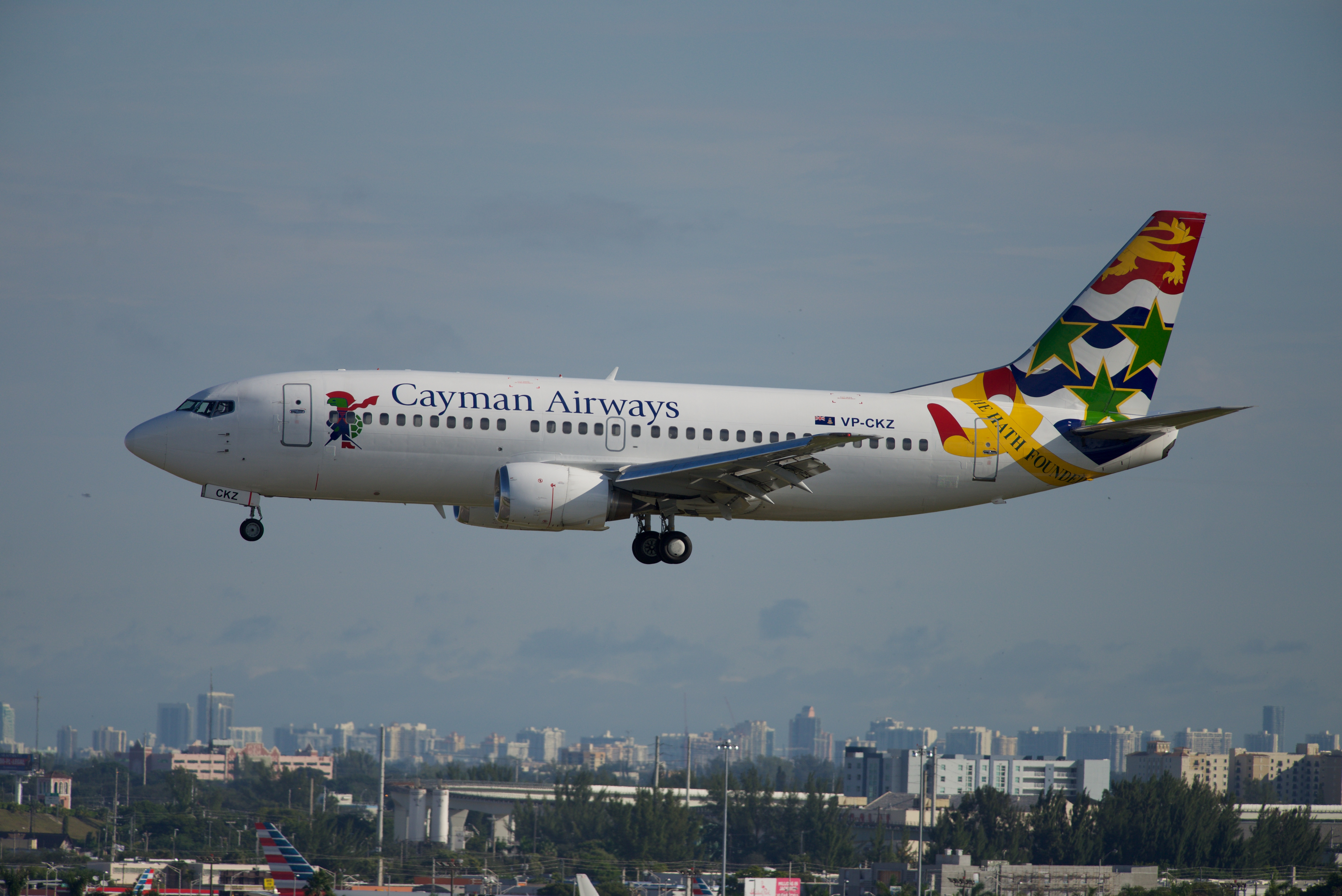 Short Final, MIA. Full Frame